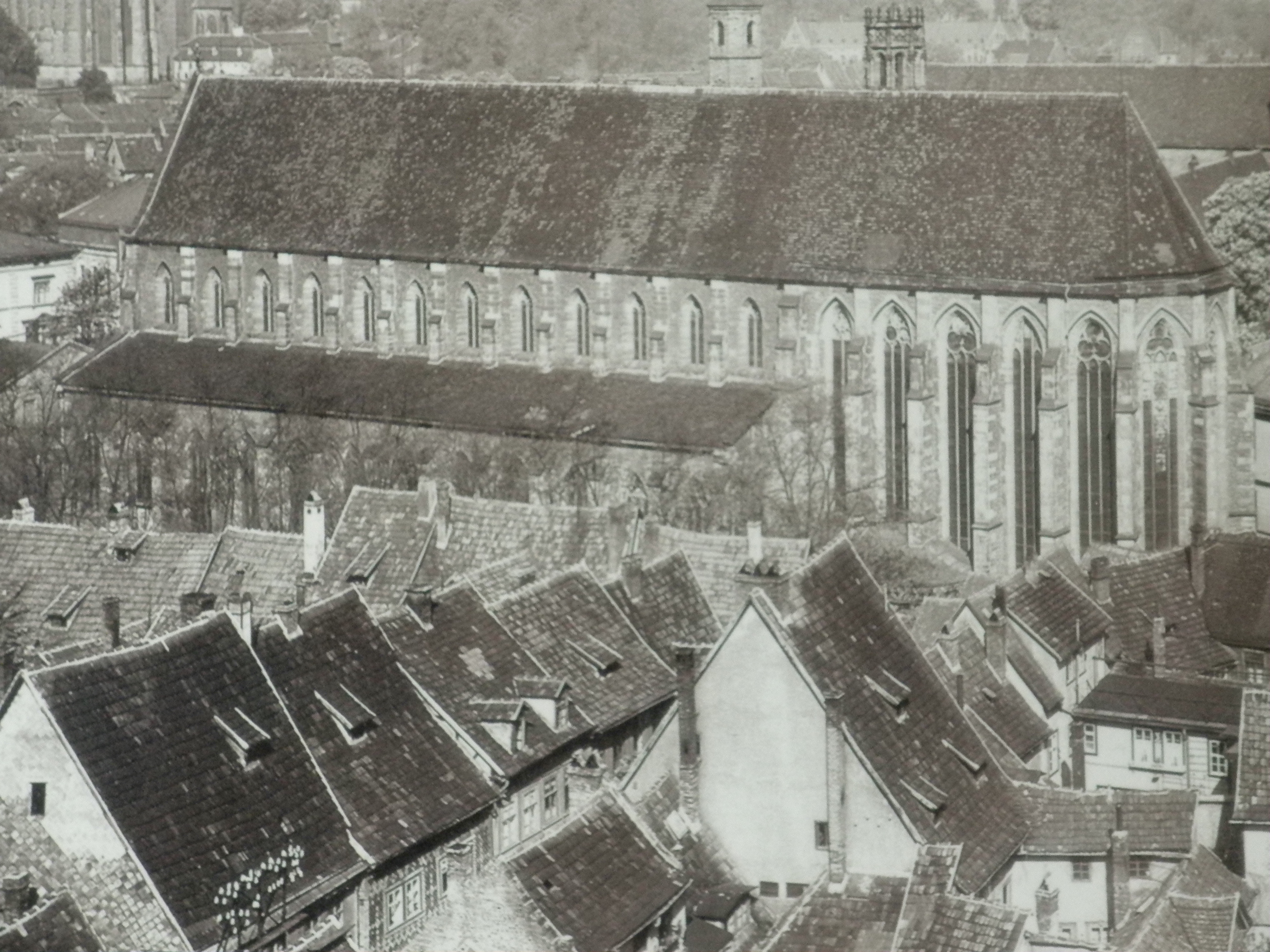 Barfüßerkirche in Erfurt in Thuringia